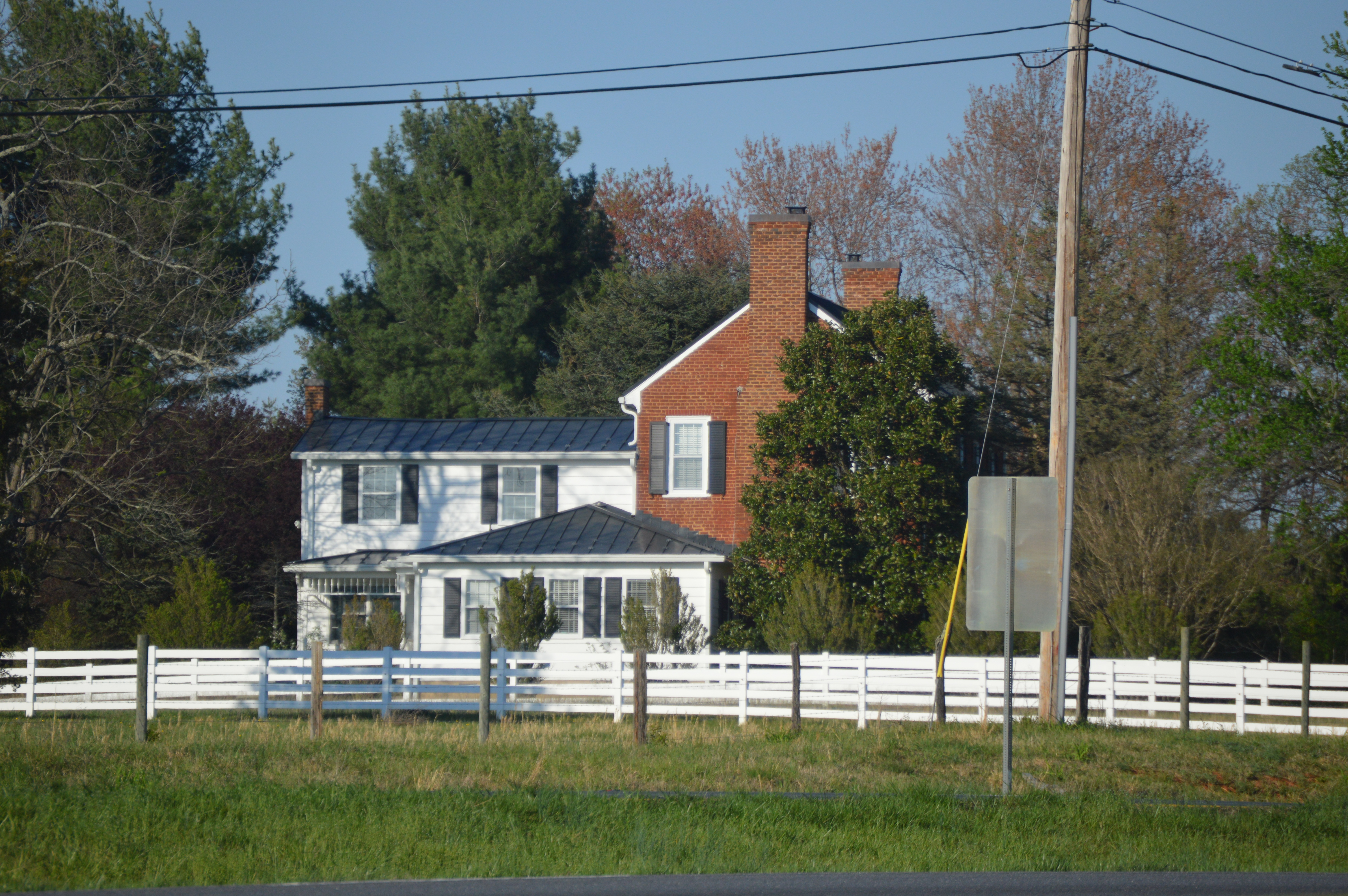 Western side of Liberty Hall, located on U.S. Route 460 just west of New London in Bedford County, Virginia, United States. Built in 1778 and later expanded, it is listed on the National Register of Historic Places.